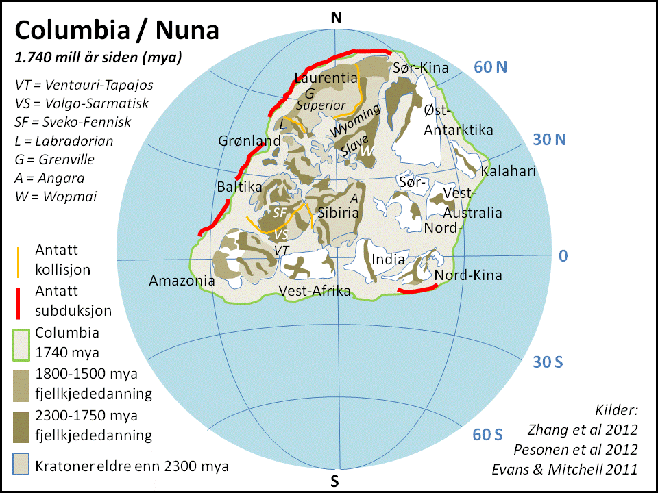 Paleogeographic globe in the Norwegian løanguage, made for Wikipedia use at PowerPoint software.